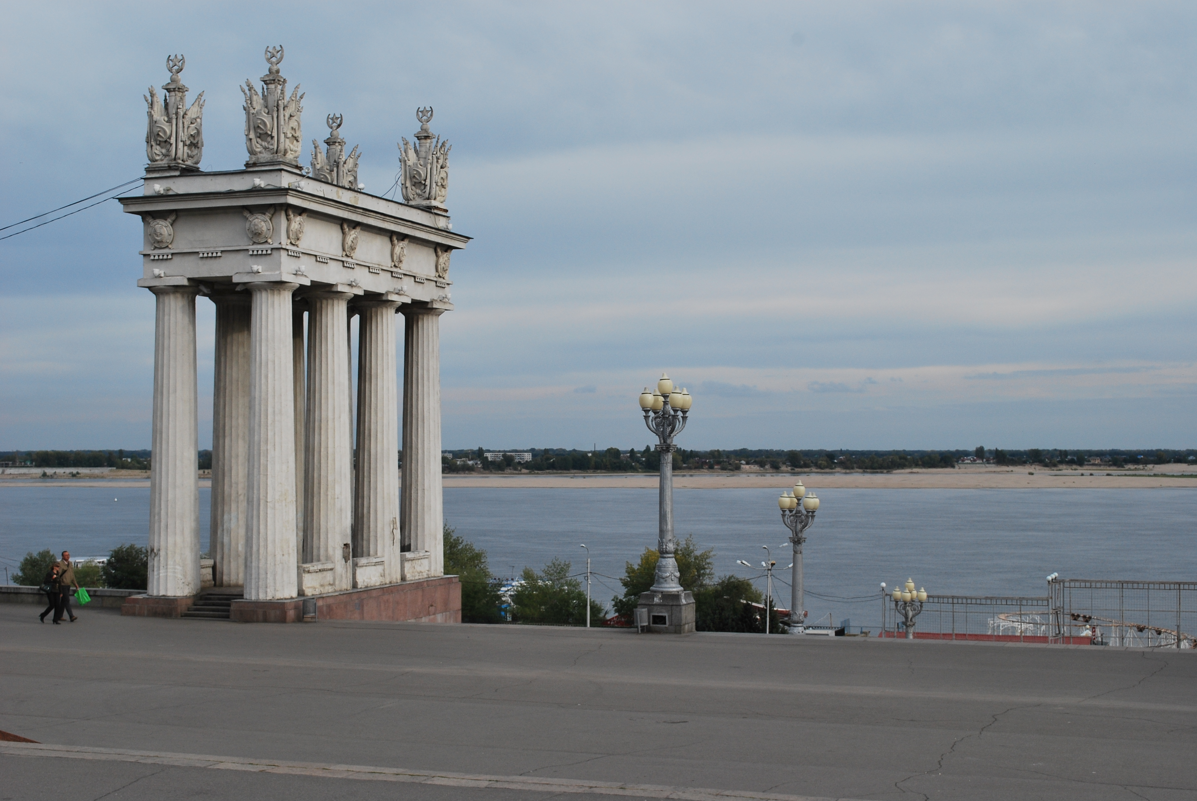 Propylaea in the central embankment of Volgograd.